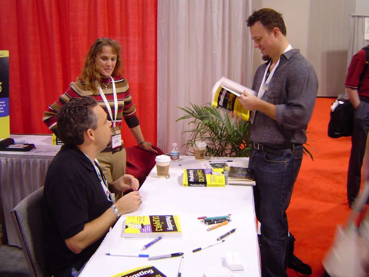 Evo Terra signing a copy of Podcasting for Dummies for Author Mark Jeffrey at Podcast Expo 2005